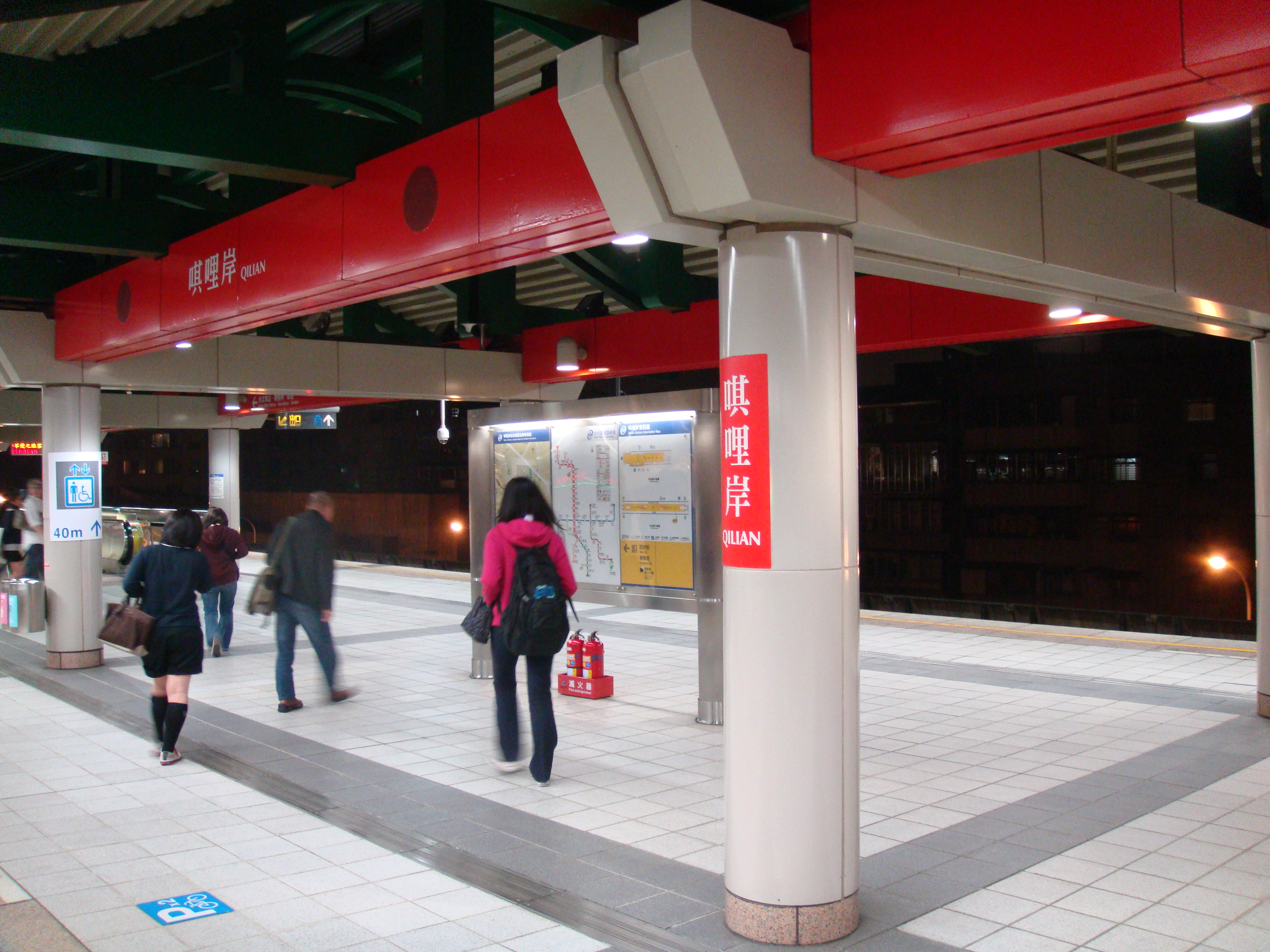 Night in Platform 2, Qilian Station, Danshui Line, Taipei Metro.